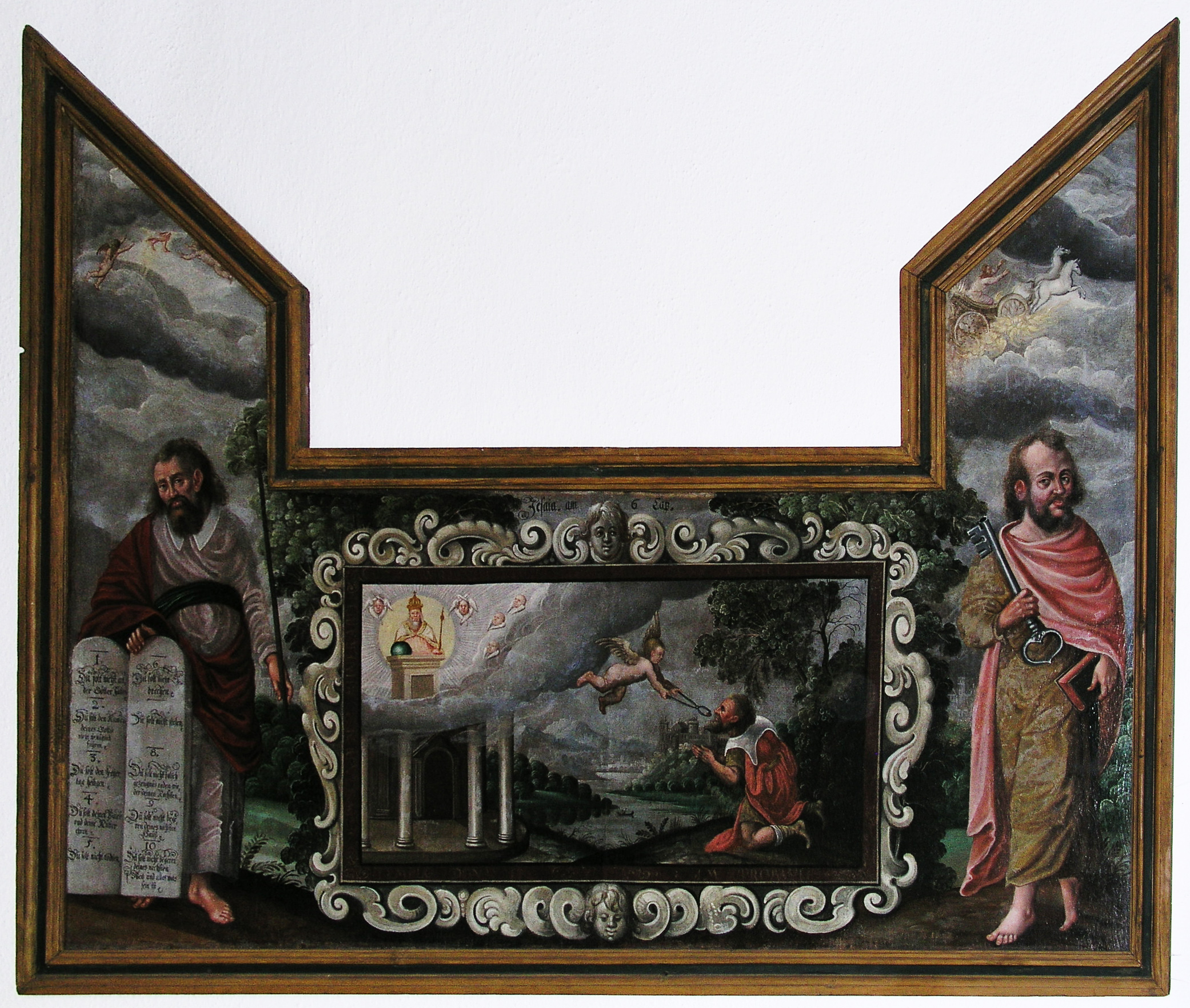 Painting from early 17th Century, maybee from the organ that came to Rystad church in 1645, Diocese of Linköping, Linköpings kommun, Sweden Picture program: Mose on the left with the two stonetables of God's Law (for the Old Testament) Peter on the right with the keys (for the New Testament) In the middle a scene illustrating a Bible word from Jesaja, chapter 6; It describes Jesaja being appointed as a prophete. An angel is coming with glowing charcoal to purify his lips for the words of God. Perhaps the use for an organ chest makes this sense: the pipes of this organ shall only sound to the glory of god. The form of the wooden parts is very similar to organs of the time mentioned above. --Metzner (talk) 15:09, 25 November 2008 (UTC)